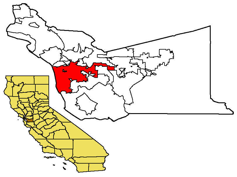 Map of the City of Hayward within Alameda County, with County highlighted in California.